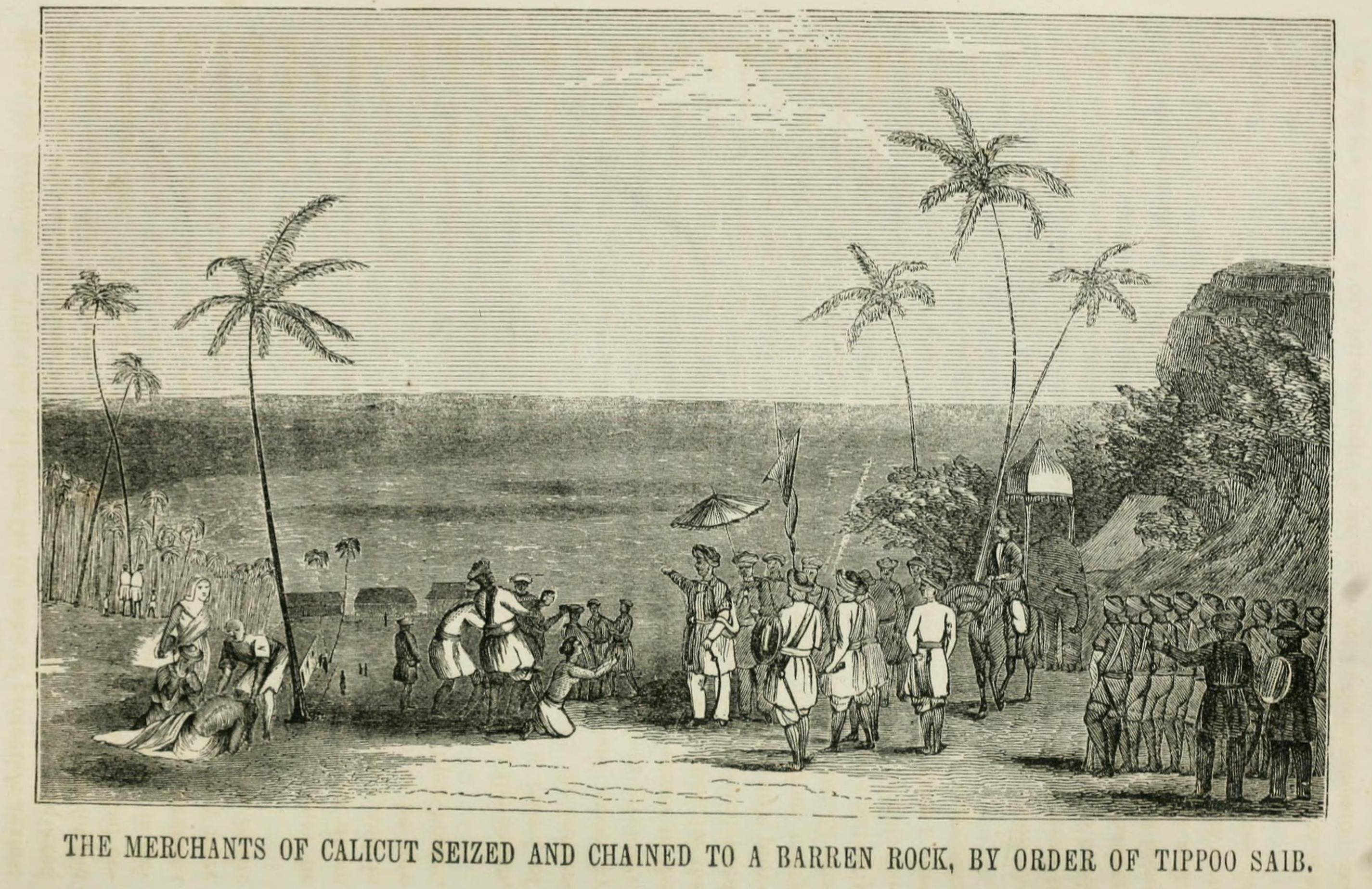 Author: Sears, Robert, 1810-1892 Publisher: New York, R. Sears Language: English Call number: ACW-7425 Digitizing sponsor: University of Toronto Book contributor: Robarts - University of Toronto Collection: robarts; toronto Notes: Missing pages 15-18, 32-33, 491-492 Full catalog record: MARCXML [Open Library icon]This book has an editable web page on Open Library.